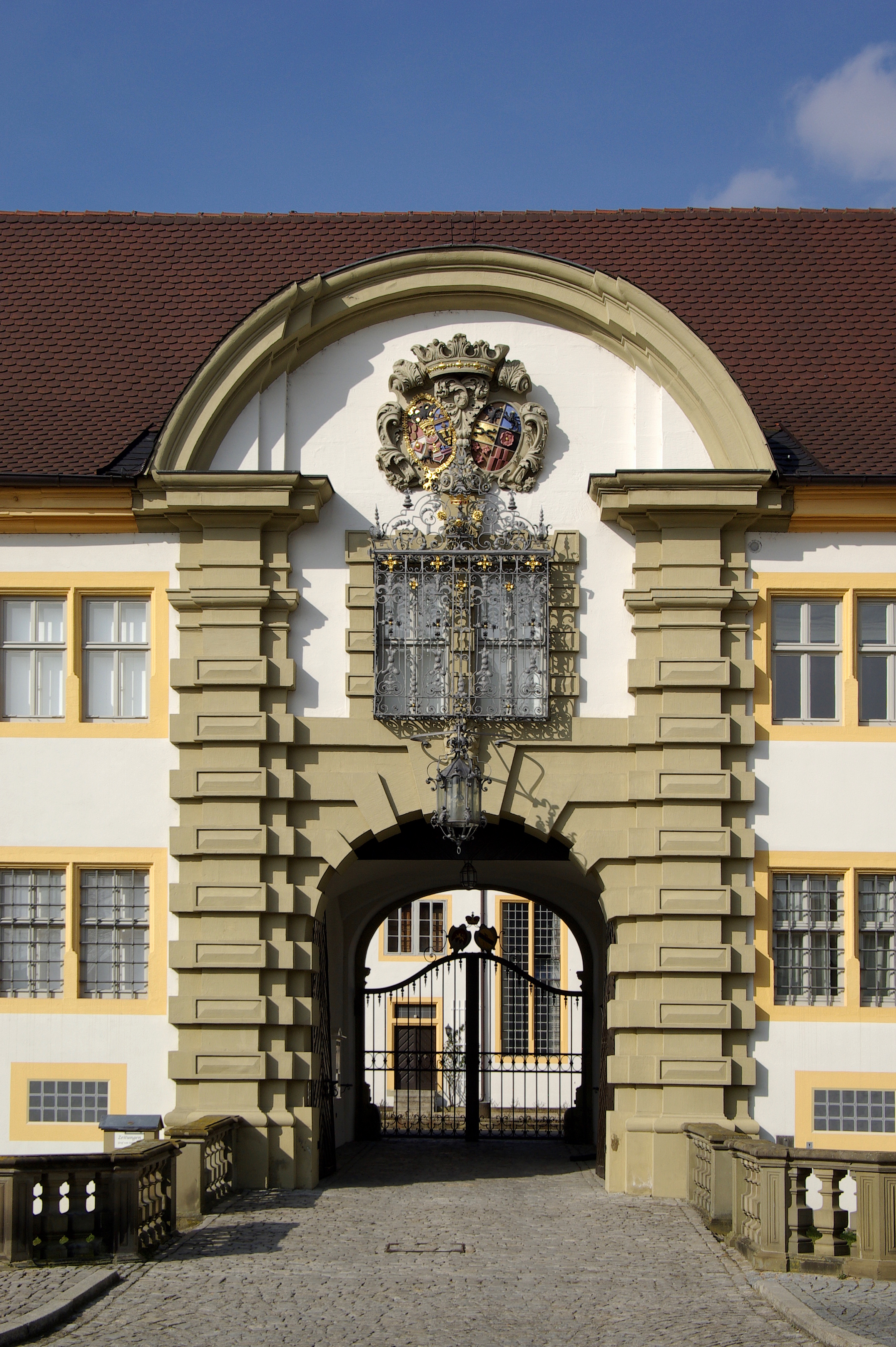 Comital Castle Wiesentheid, main gate